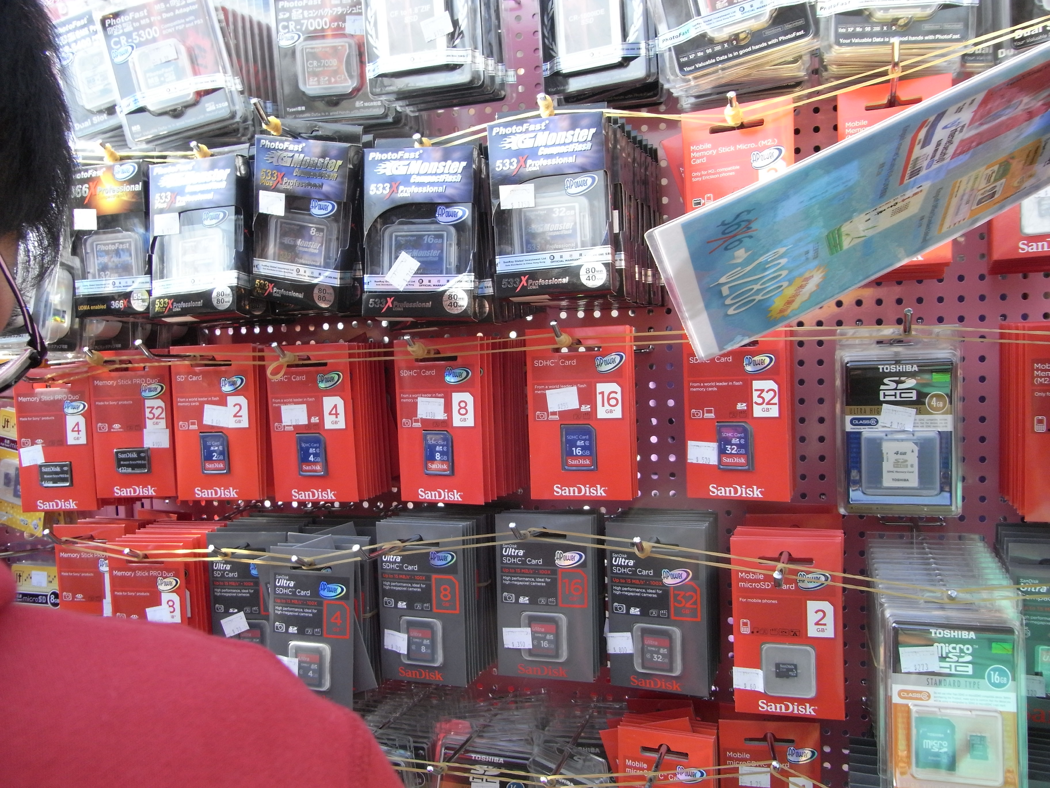 深水埗區 2010年香港電腦節